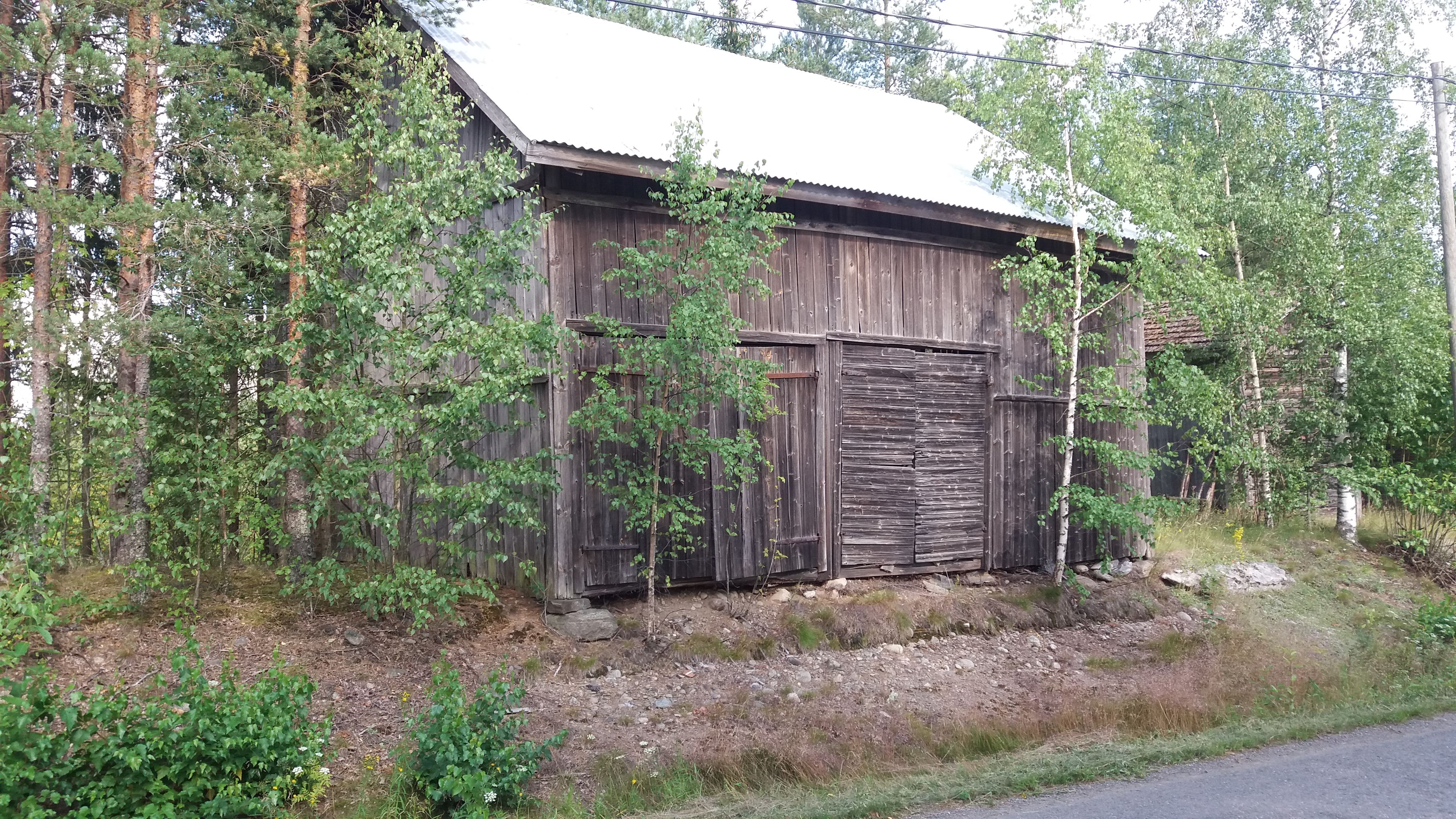 A suuli-style barn in Säpilä, Kokemäki, Finland.